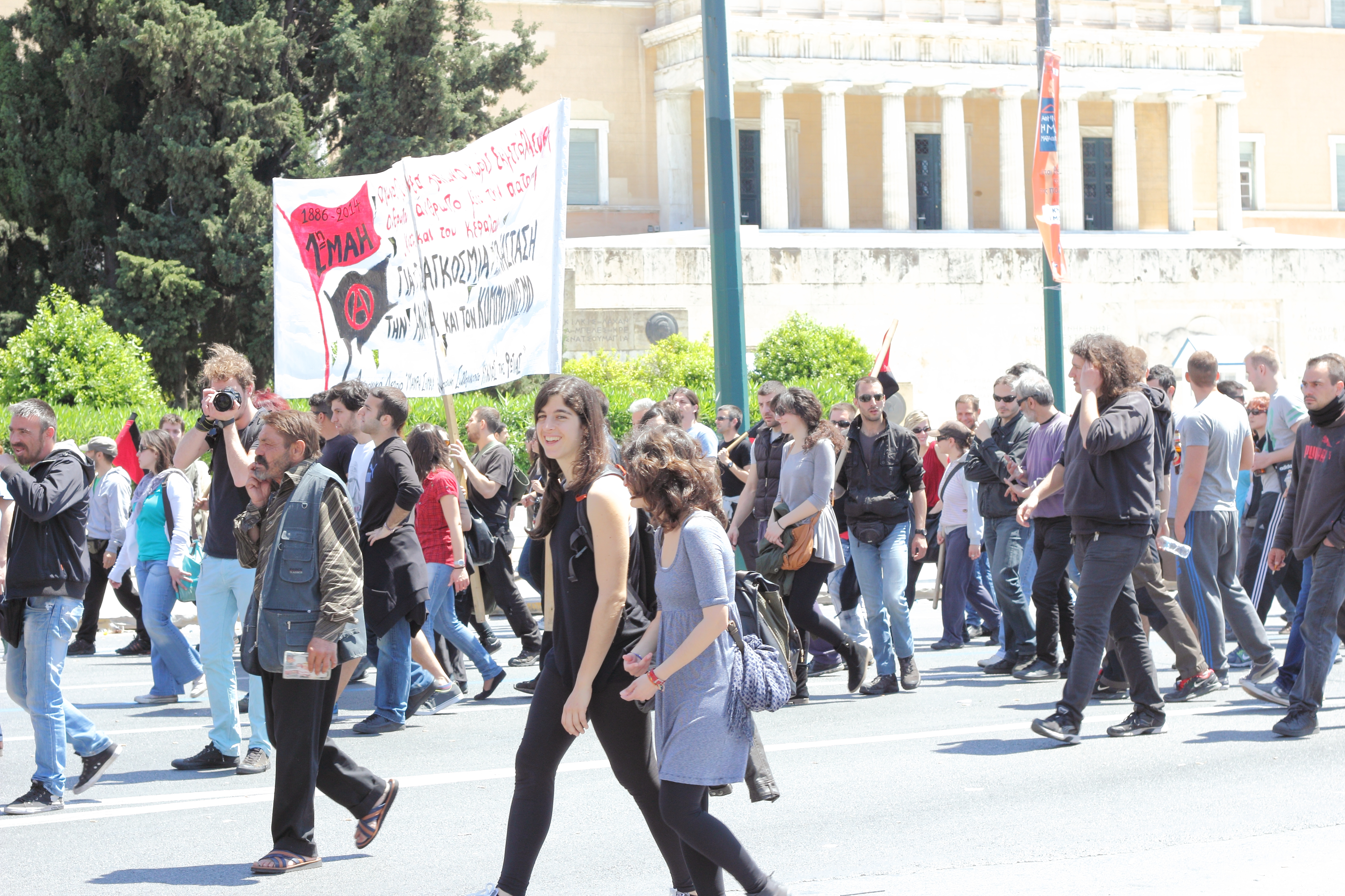 Anarchist-communists march in Athens, Greece at Syntagma Square next to the parliament building while holding red-and-black flags (an anarchist-communist symbol) and a banner which reads "1884-2014 1st May, struggle for a new society without exploitation of human by human until the overturn of the state and the capital, for the worldwide revolution, anarchy and communism, anarchist newspaper Black Flag and anarchist organization Circle of Fire".